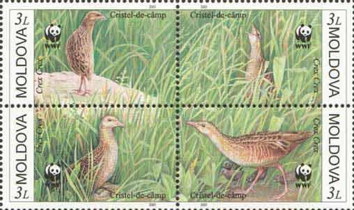 Stamp of Moldova